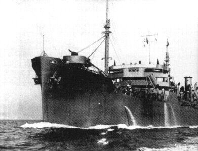 Mission Purisima (T-AO-118), US Navy photo by Navy Armed Guard. img URL